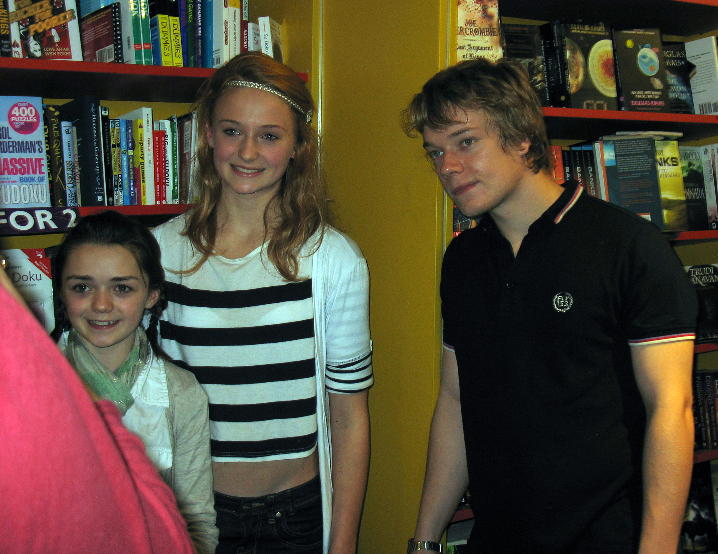 Maisie Williams, Sophie Turner and Alfie Allen at at the GRRM Easons Book signing Belfast 3rd Nov 2009, which was followed by an evening event called Moot 1 organised by the Brotherhood Without Banners (ASoIAF fandom).